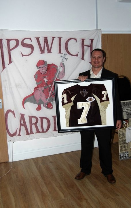 HC and former player of the Ipswich Cardinals Ian Girling has his jersey number retired at the 25th anniverasy party.